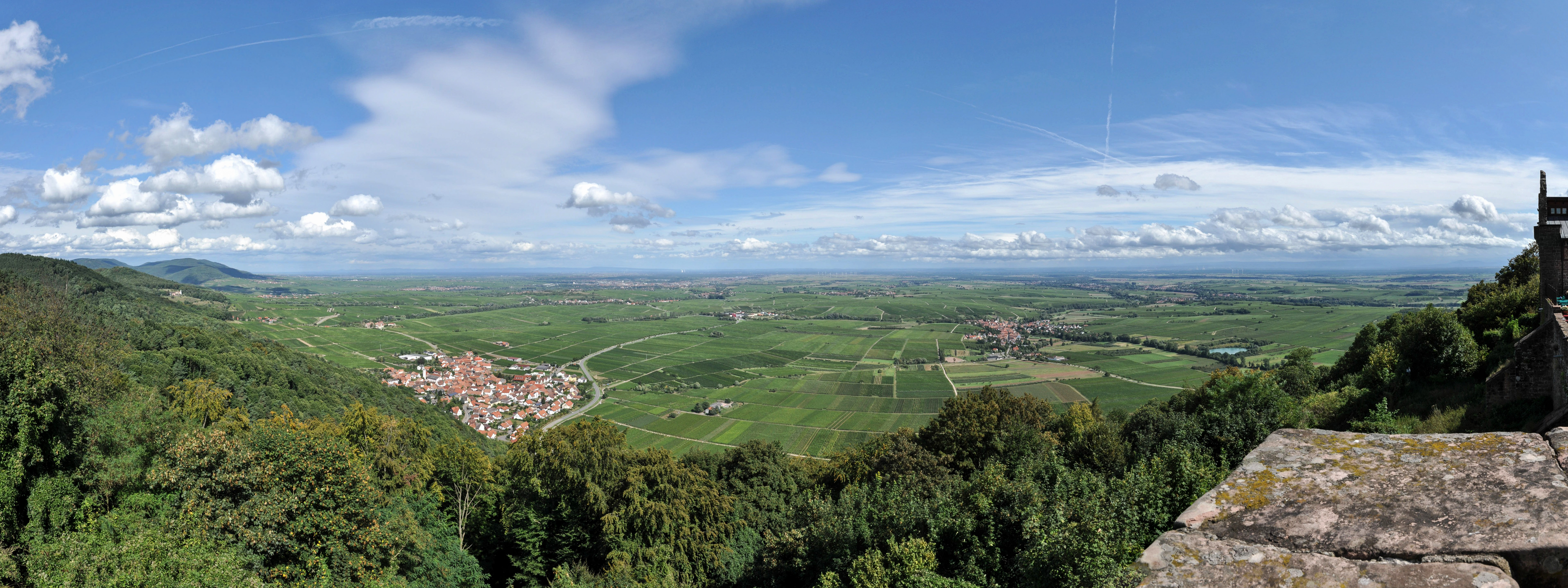 View from Madenburg castle towards the east into the Upper Rhine Valley, on the left side the village of Eschbach, Rhineland-Palatinate, Germany.